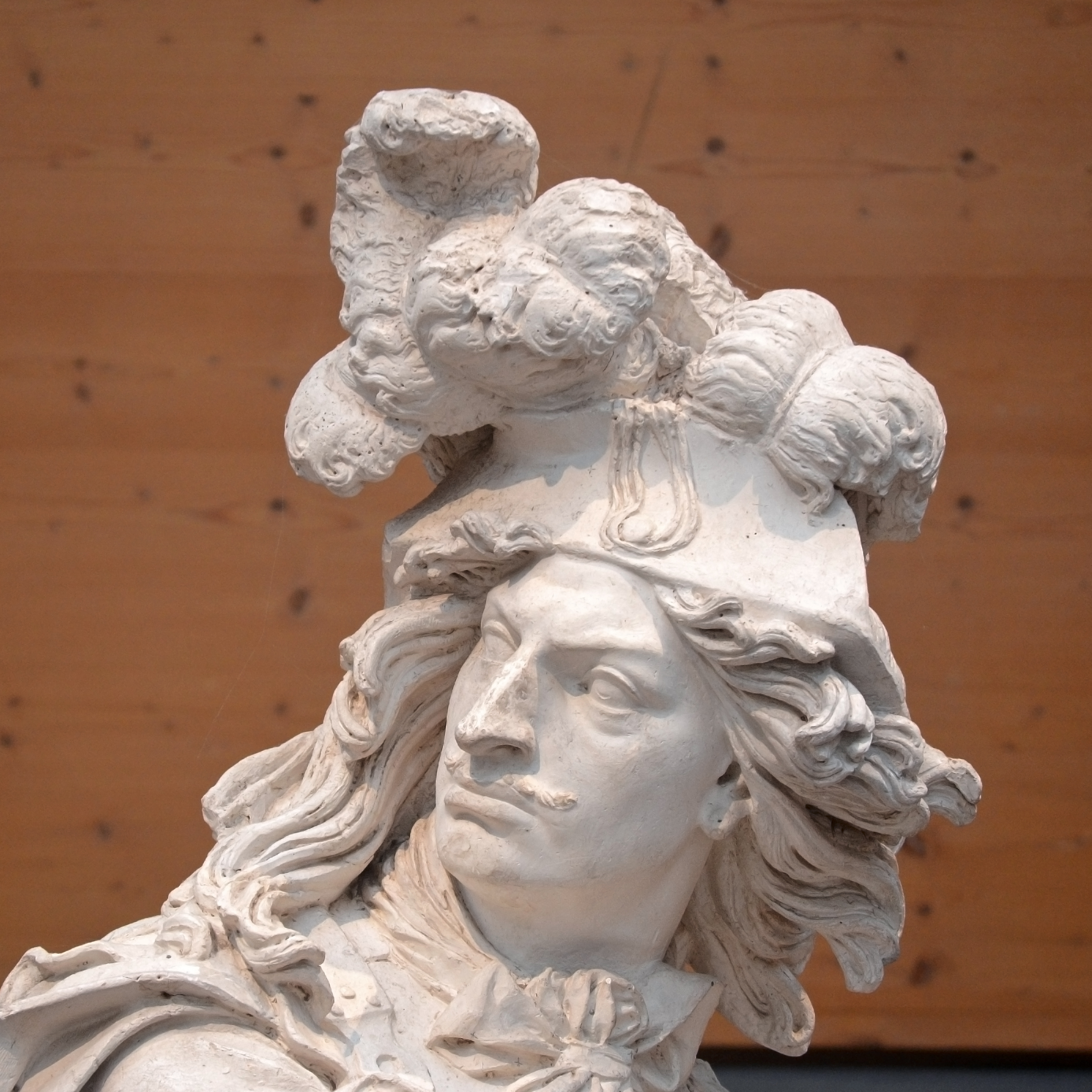 Statue depicting Louis, Grand Condé by french sculptor David d'Angers (1817). Exhibited in David d'Angers gallery, Angers, France